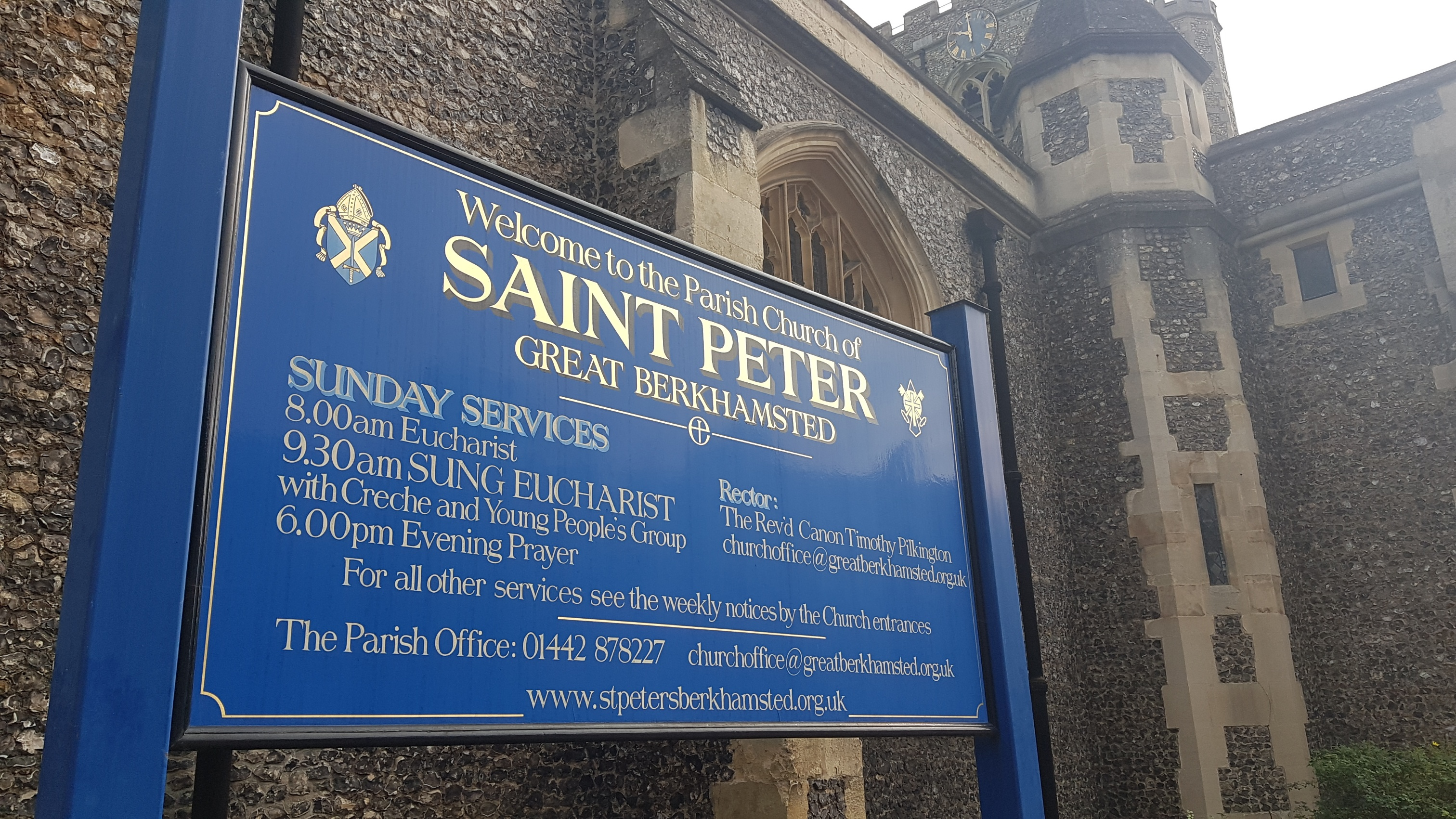 Information sign outside St Peter's Church, Berkhamsted